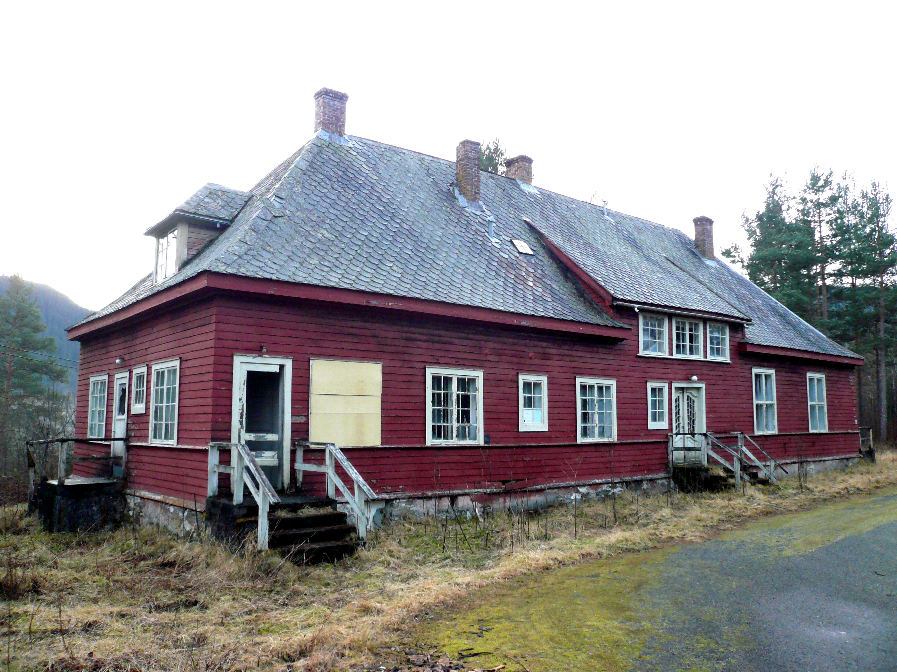 Bømoen, Voss, Norway